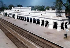 Gujranwala railway Station